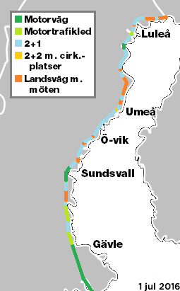 Sketch of road standard for E4 north of Gavle, as of July 1, 2016.